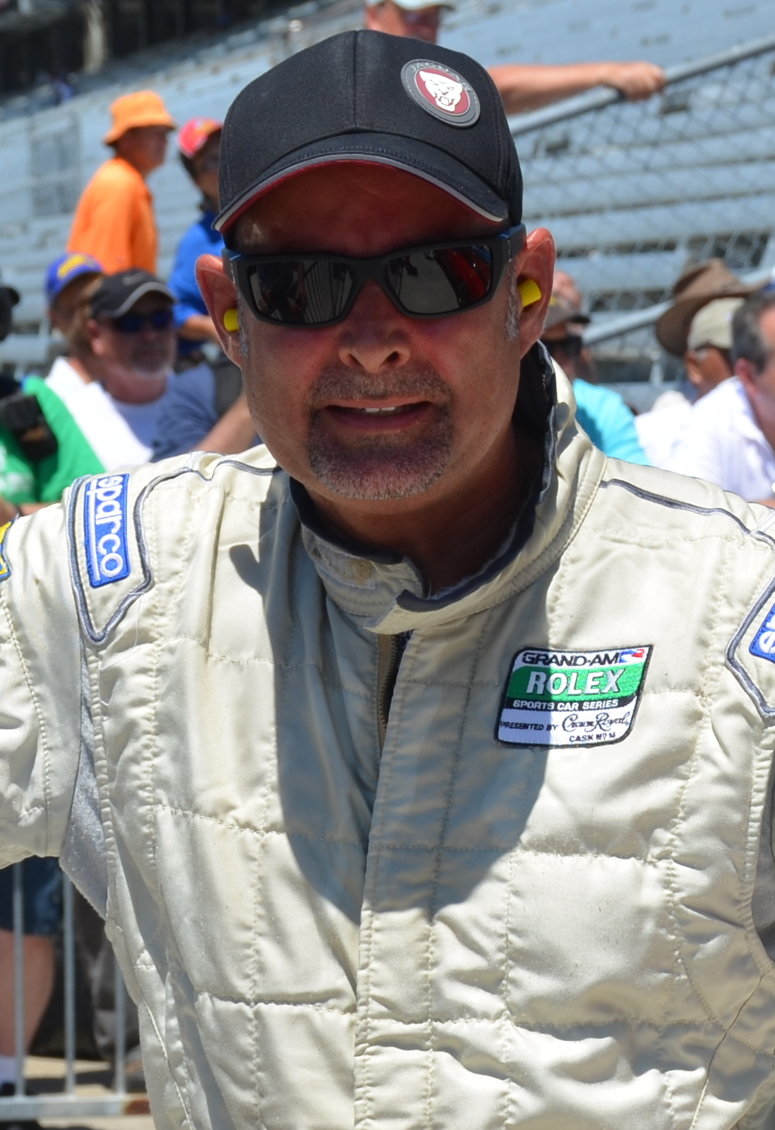 Davy Jones at the 2016 Brickyard SVRA Pro-Am race at the Indianapolis Motor Speedway.